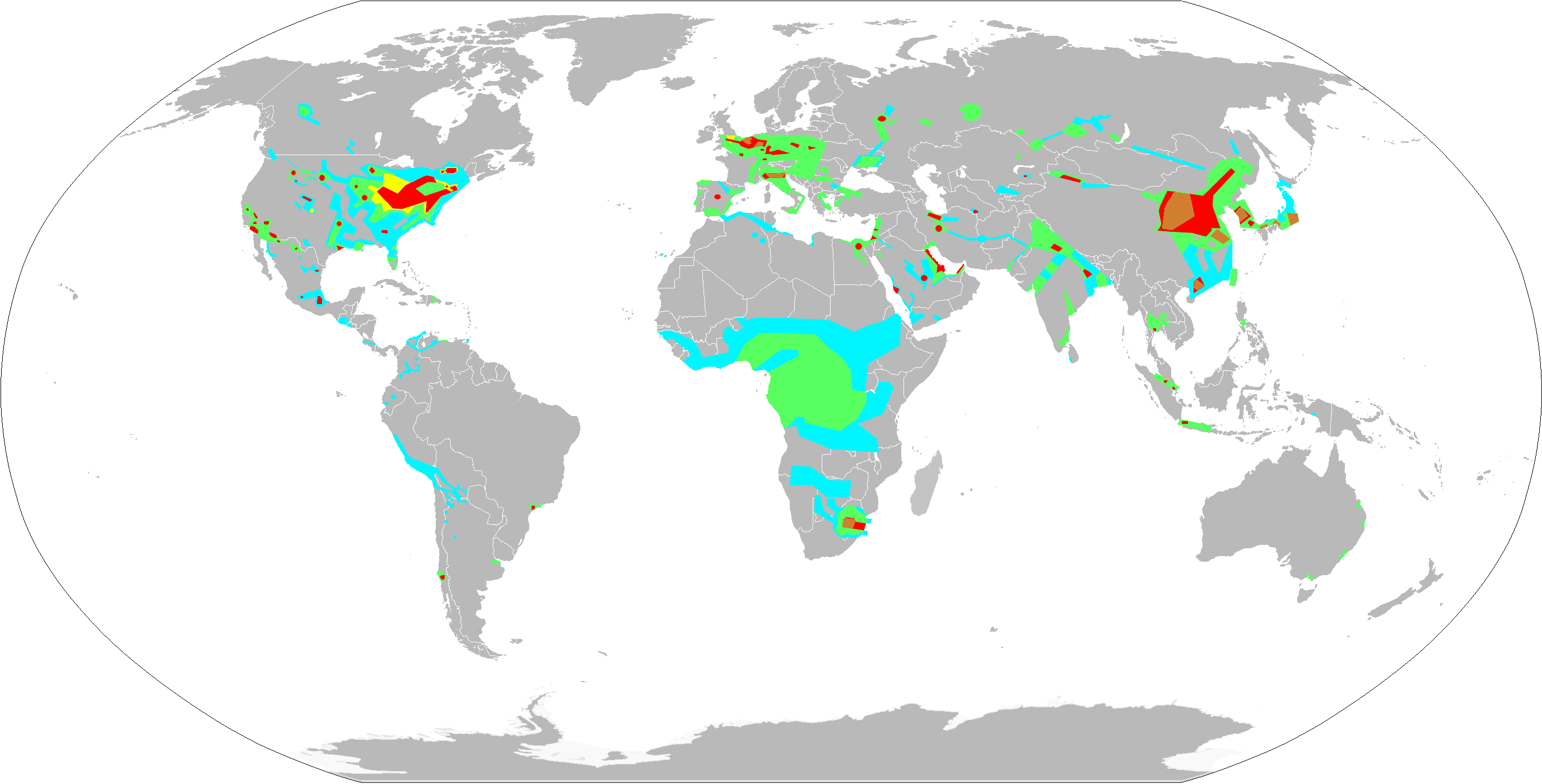 A schematic of the global air pollution. The map was made by User:KVDP using the GIMP. It was based on the global air pollution map by the ESA ( , )